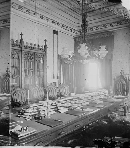 This is an image of the Queen's Privy Council for Canada offices as they appeared in the 1880's - this image is public domain. It is from [1]